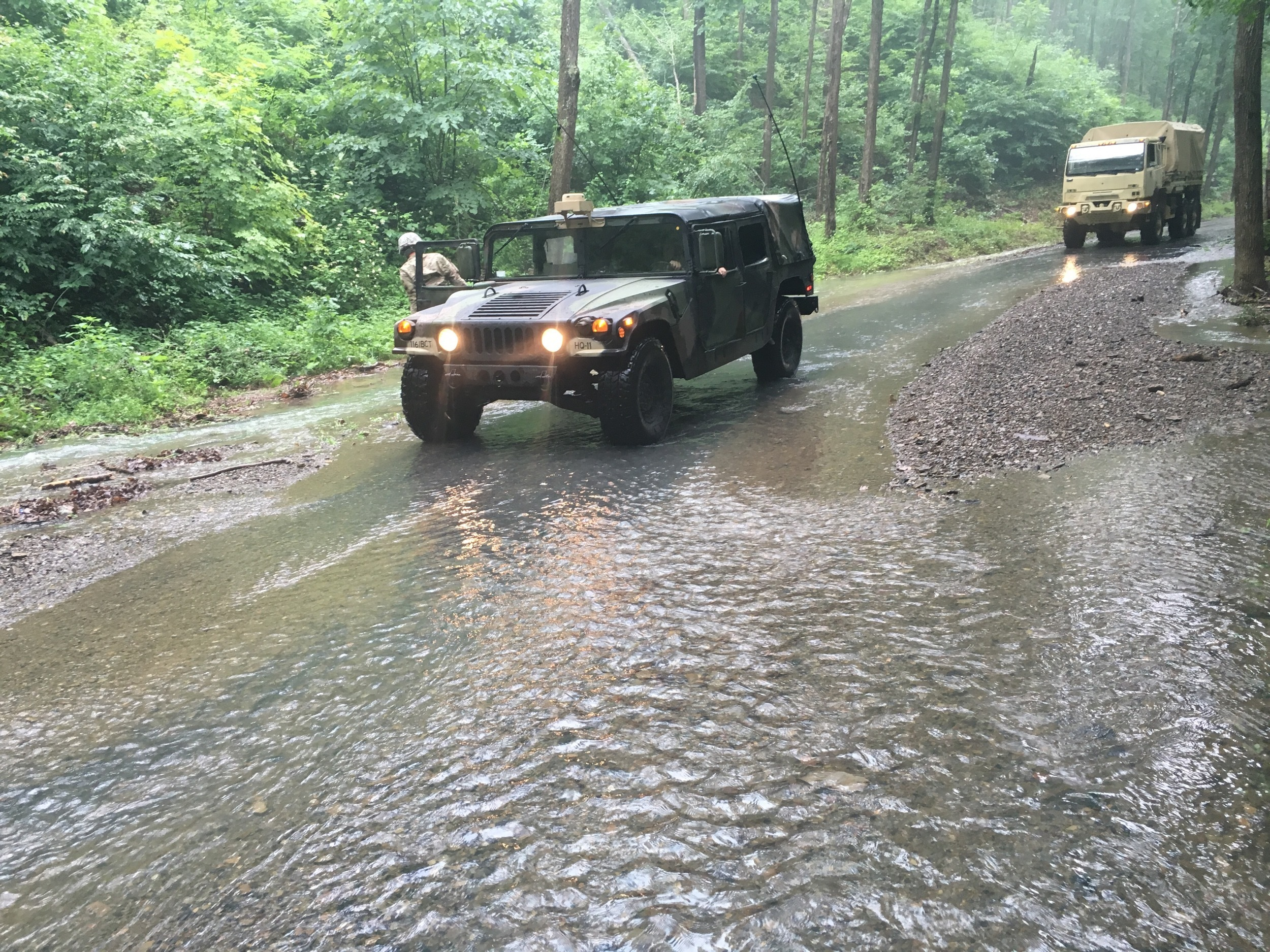 Virginia National Guard Soldiers assigned to the Staunton-based 116th Infantry Brigade Combat Team conduct damage assessments June 24, 2016, in Alleghany County, Virginia. Read more at (U.S. Army National Guard photo by Alfred Puryear)